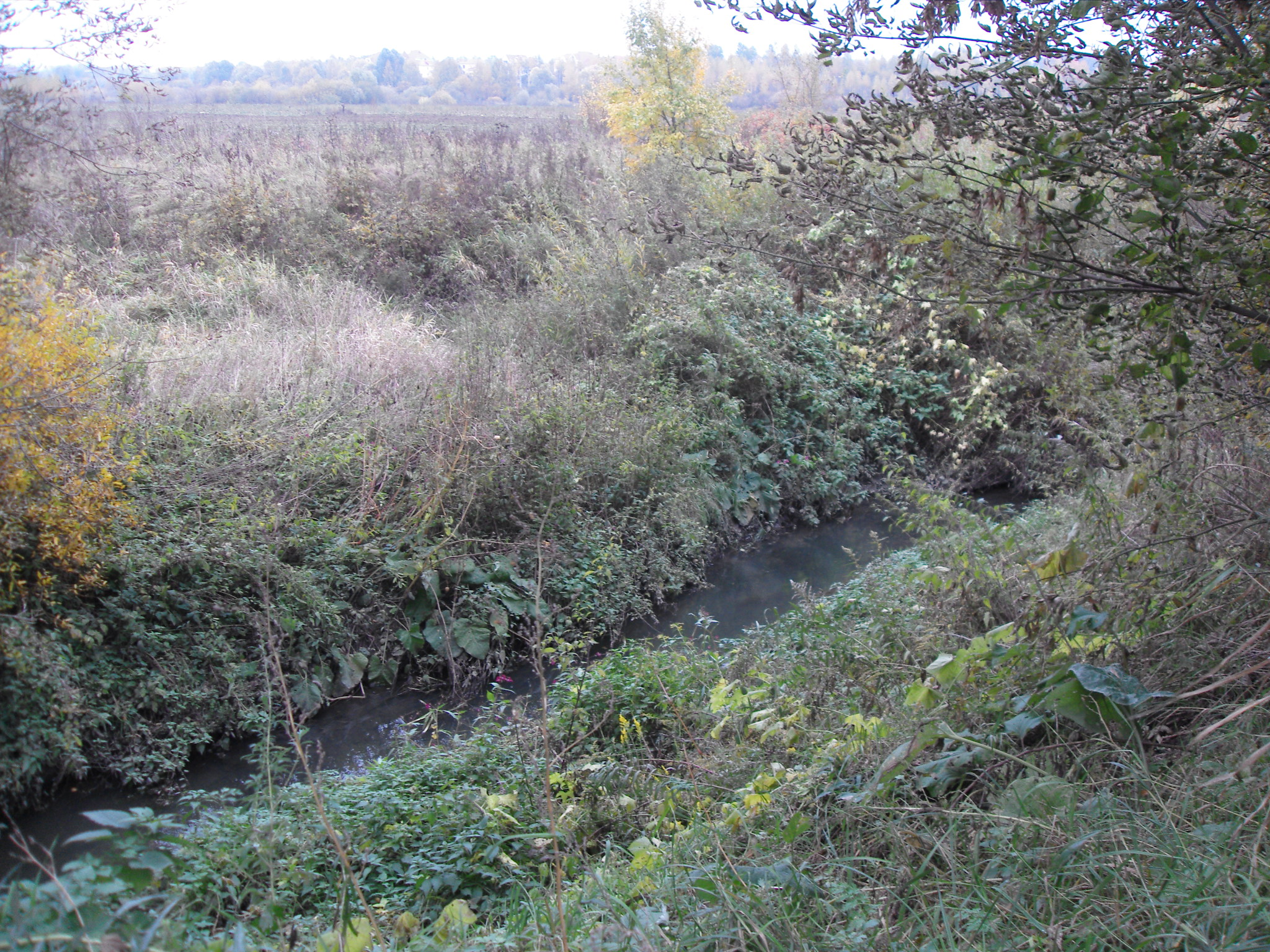 The part of the Rakhma river between a springhead and the confluence with the Starka river (near Utechino village).